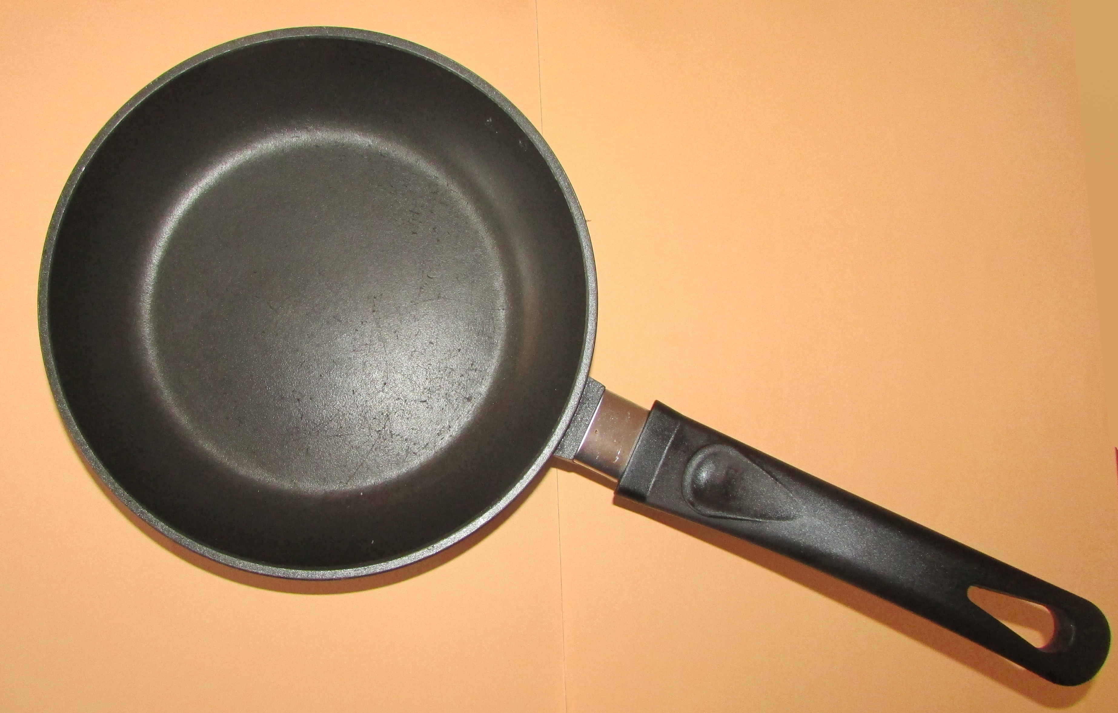 PTFE pan